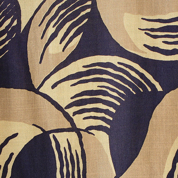 Detail of a Charvet dressing gown. Printed flax. Metropolitan Museum. Accession Number: 1983.616.4a, b